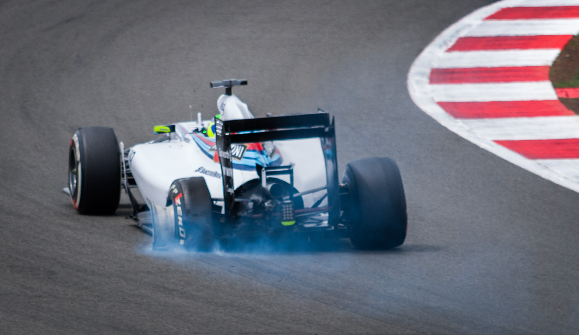 Felipe Massa on his way to the pit lane with a puncture. The puncture was the result of trying to avoid an accident caused by Kimi Räikkönen on the first lap of the 2014 British Grand Prix at Silverstone.